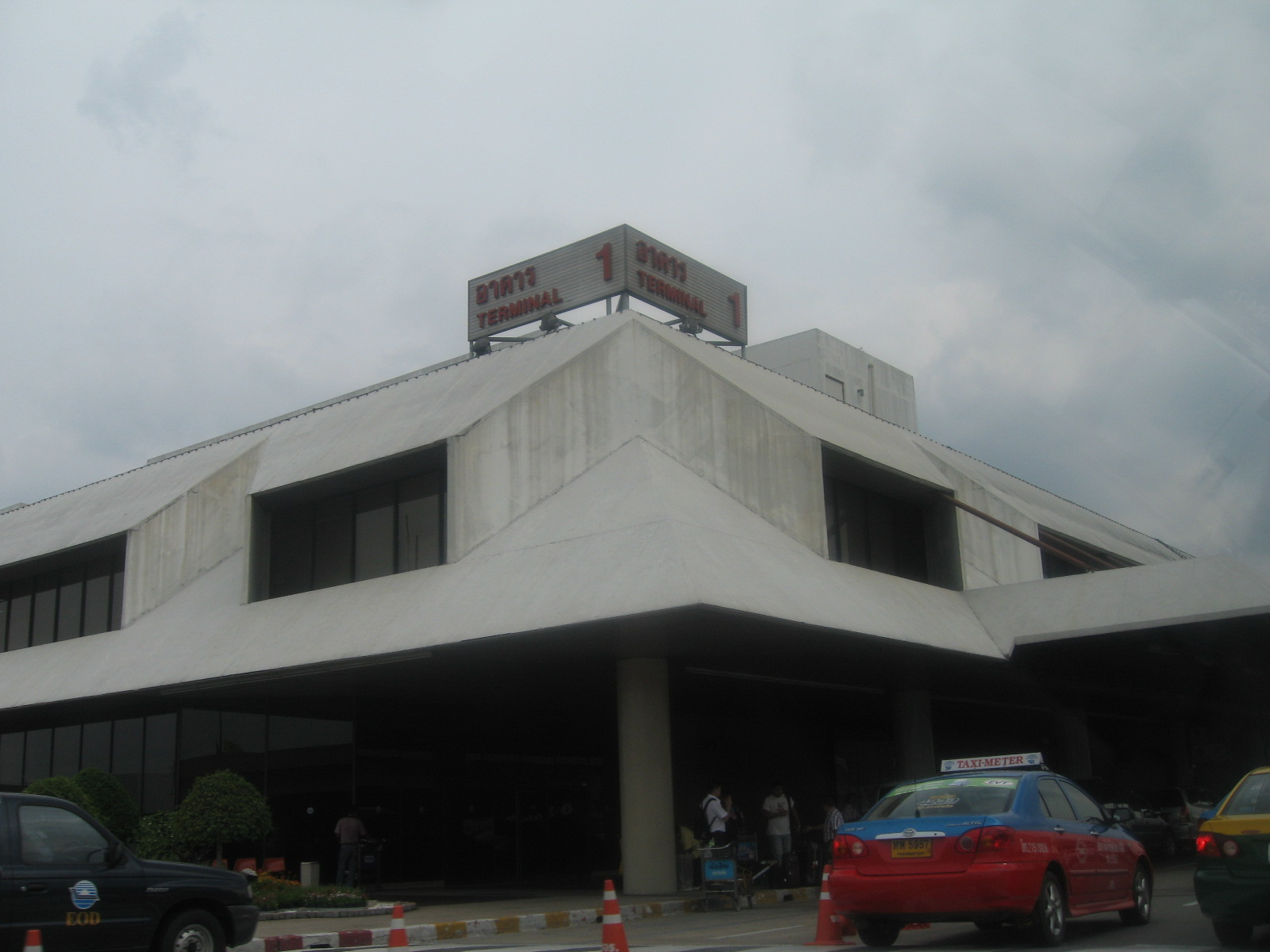 Bangkok (Don Mueang) International Airport, Terminal 1.